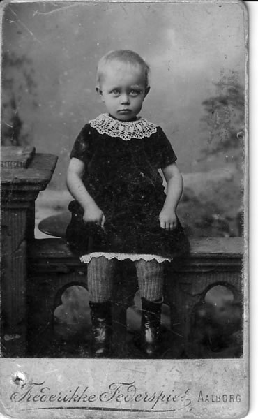 Portrait of Dorothy Sørensen (born 1888, age c. 2 yrs) executed by Frederikke Federspiel at her studio in Aalborg, Denmark